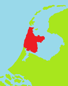 The historical region of Noorderkwartier in the county of Holland.